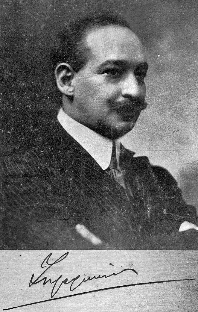 Jose Ingenieros (1877–1925). Photo from cover of special issue of Nosotros (1925). Signature from dedication of doctoral thesis to friend Emilio Zucarini.